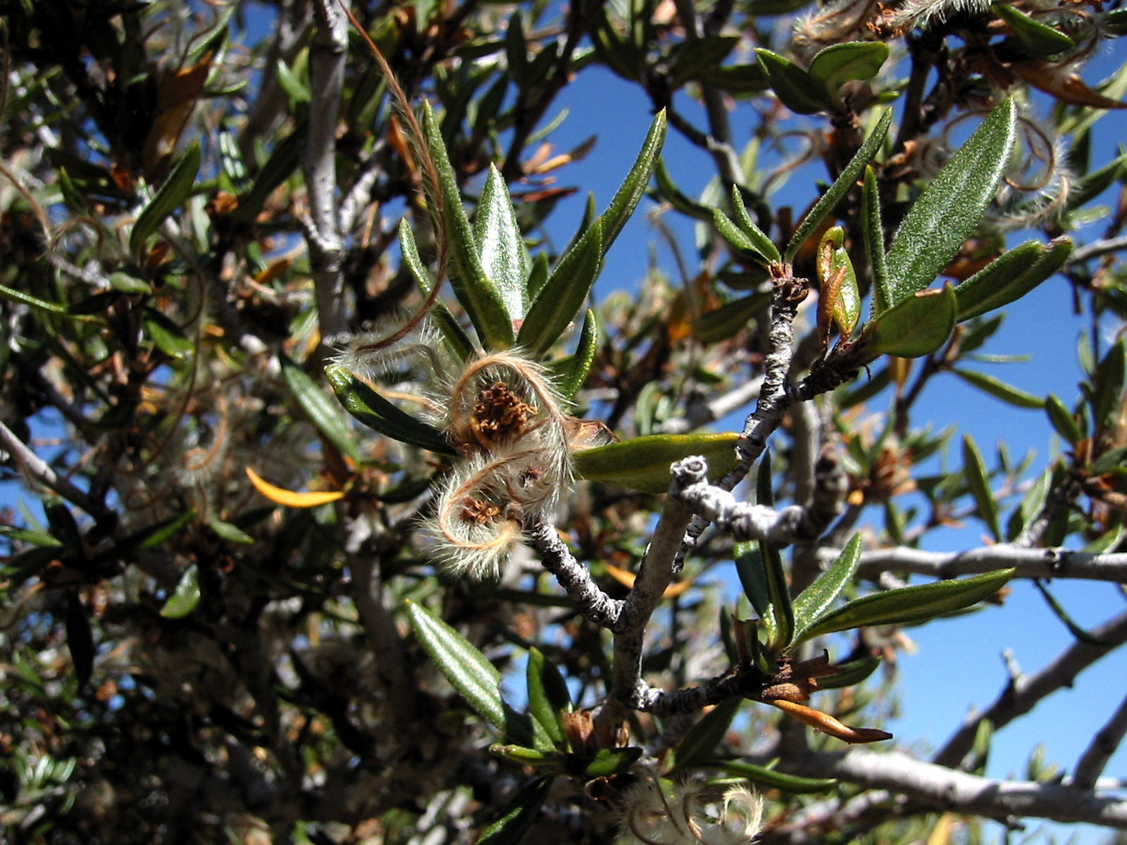 Curlleaf Mountain-mahogany Description: Curlleaf Mountain-mahogany (Cercocarpus ledifolius) foliage and seeds. Viewpoint location: Mushpot Cave Trail about 50 m from Visitors Center, Lava Beds National Monument. Lat/Long: 41.7137°N, 121.5089°W (WGS84/NAD83) USGS SCHONCHIN BUTTE Quad [1] Viewpoint elevation: 4740 feet View direction: north Date and time: 2005.10.24 13:16:24 PDT Camera: Canon PowerShot S110 Photographer: Walter Siegmund ©2005 Walter Siegmund